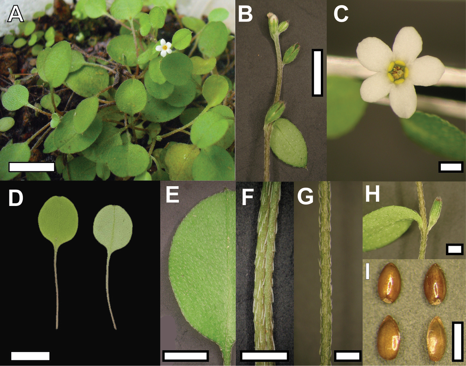 Plant of Myosotis chaffeyorum (A) and close-up view of vegetative and reproductive structures (B Flowering stem C Flower D Rosette leaves E Rosette leaf indumentum F Petiole G Stem H Node with flower and stem leaf I Nutlets). Bar = 1 cm in A & D, 5 mm in B & E, 1 mm in C, F, G, H, I. Material from WELT SP092173 (D, E, F, G, H ) and WELT SP094151 (A, B, C, I).